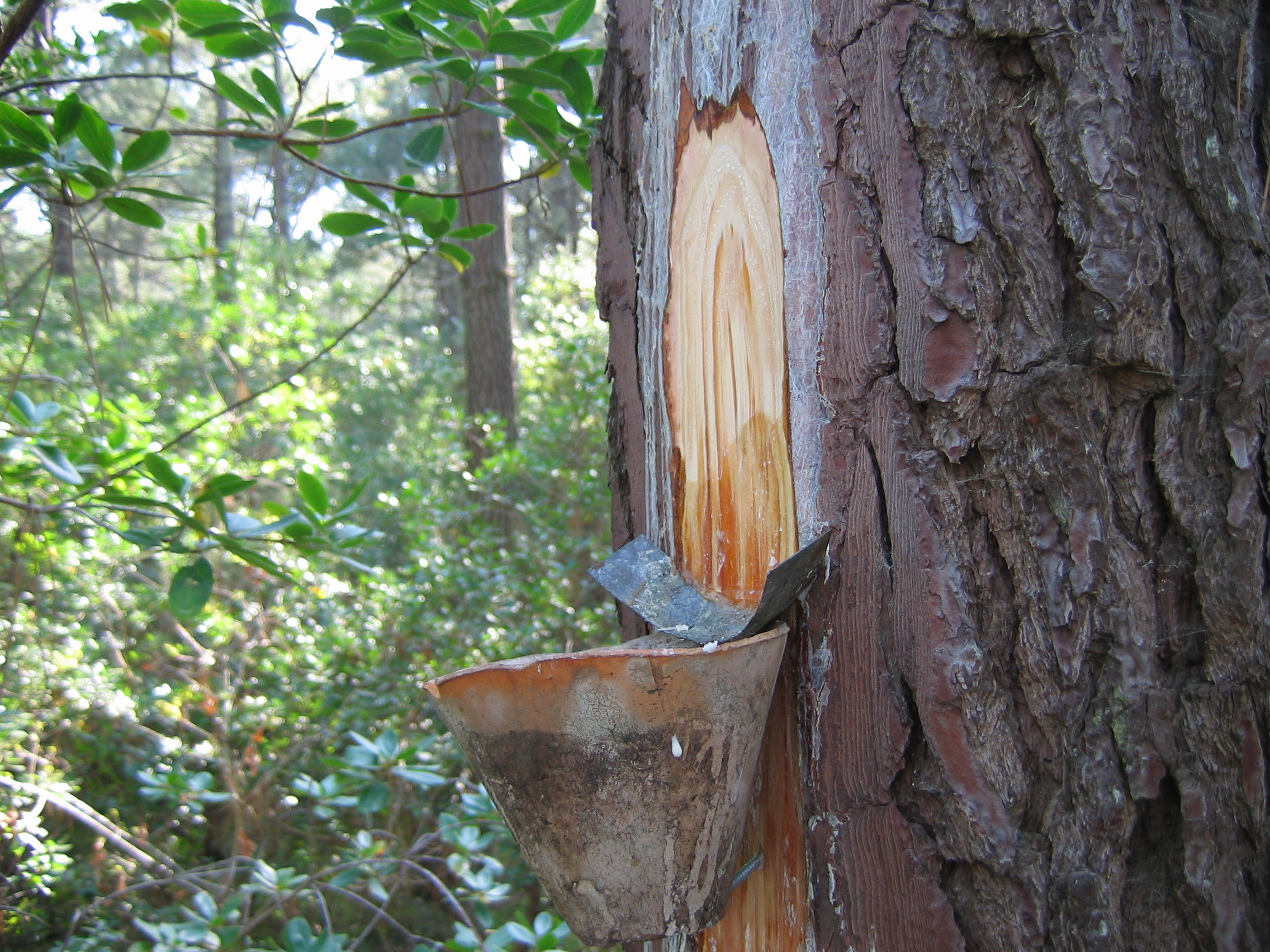 pine